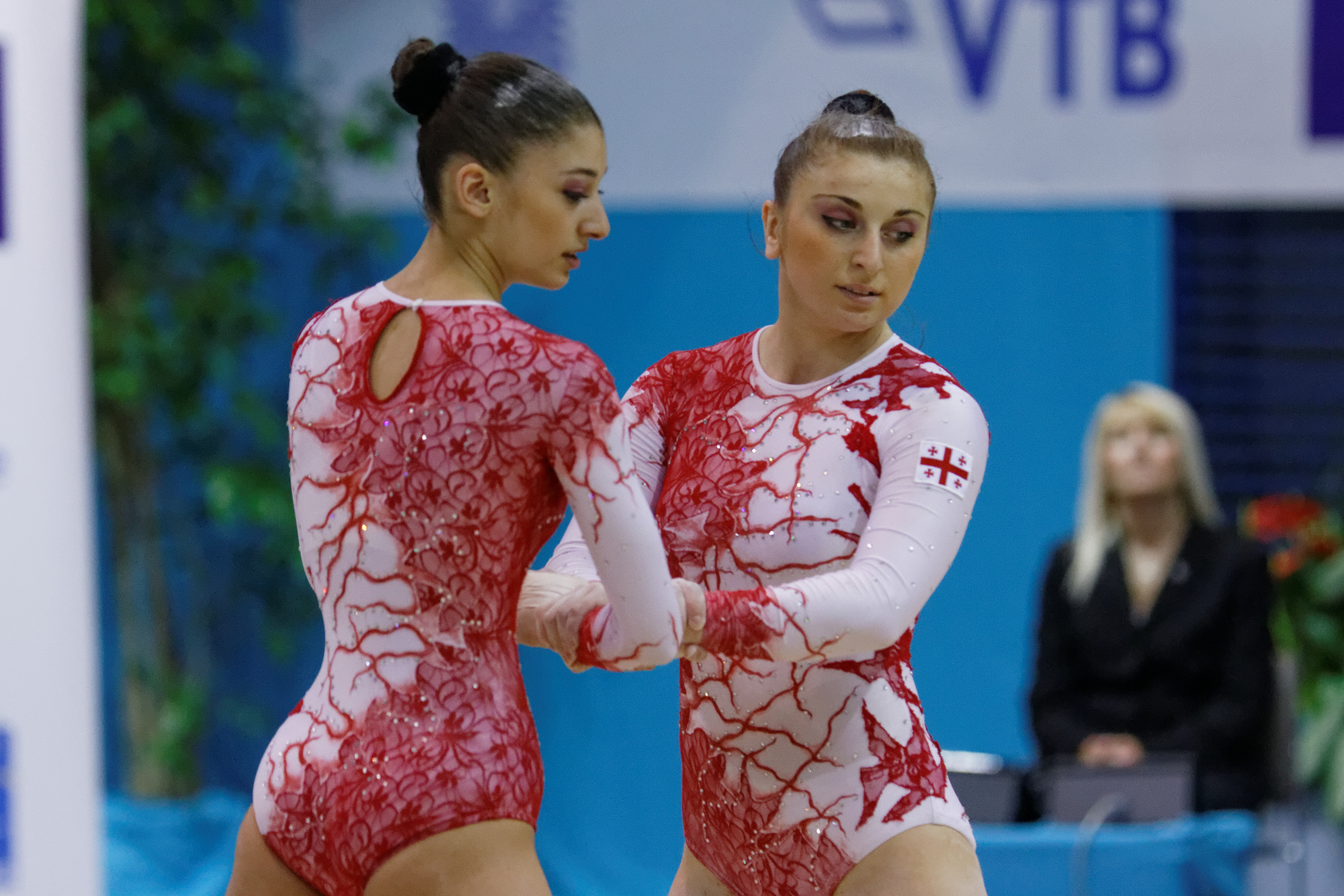 2014 Acrobatic Gymnastics World Championships, 10th-12 July, Levallois-Perret, France. Qualifications: women's group. Georgia. Mariam Gigolashvili and Nino Diasamidze pictured here (order unknown).